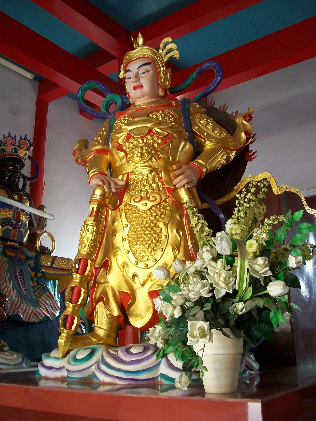 Statue of Skanda Bodhisattva, also known as Weituo Pusa, a Dharma protector in Mahayana Buddhism. Guanyin Nunnery, Anhui province, China.